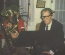 Namesake of the Falcone INternational Tuba and Euphonium Competition Leonard Falcone at approximately 80 years of age still teaching - in this case a young Euphonium player.